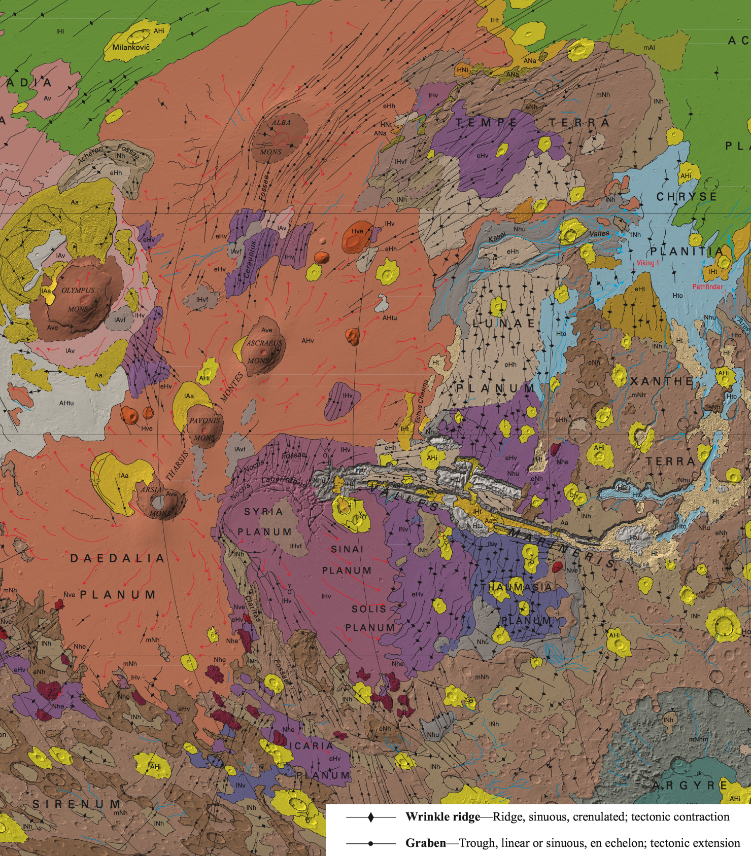 Fig. 2 Wrinkle ridges and grabens